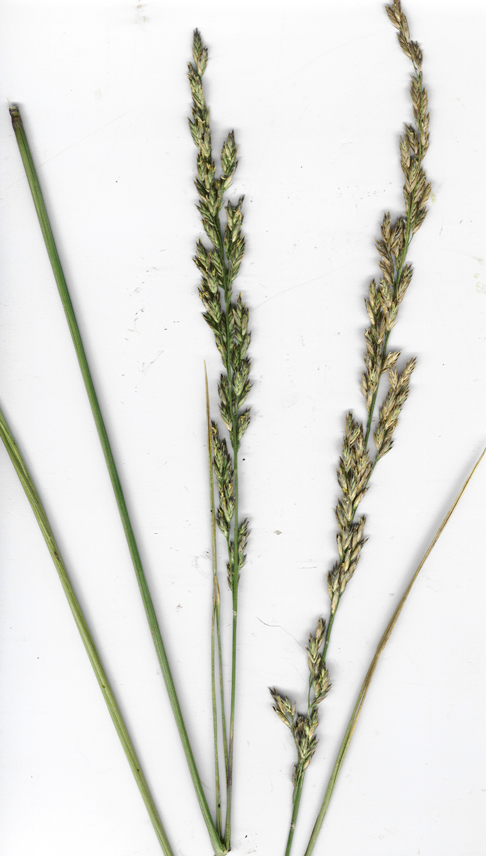 Festuca arundinacea (seed heads). Location: Maui, Haleakala National Park near RM